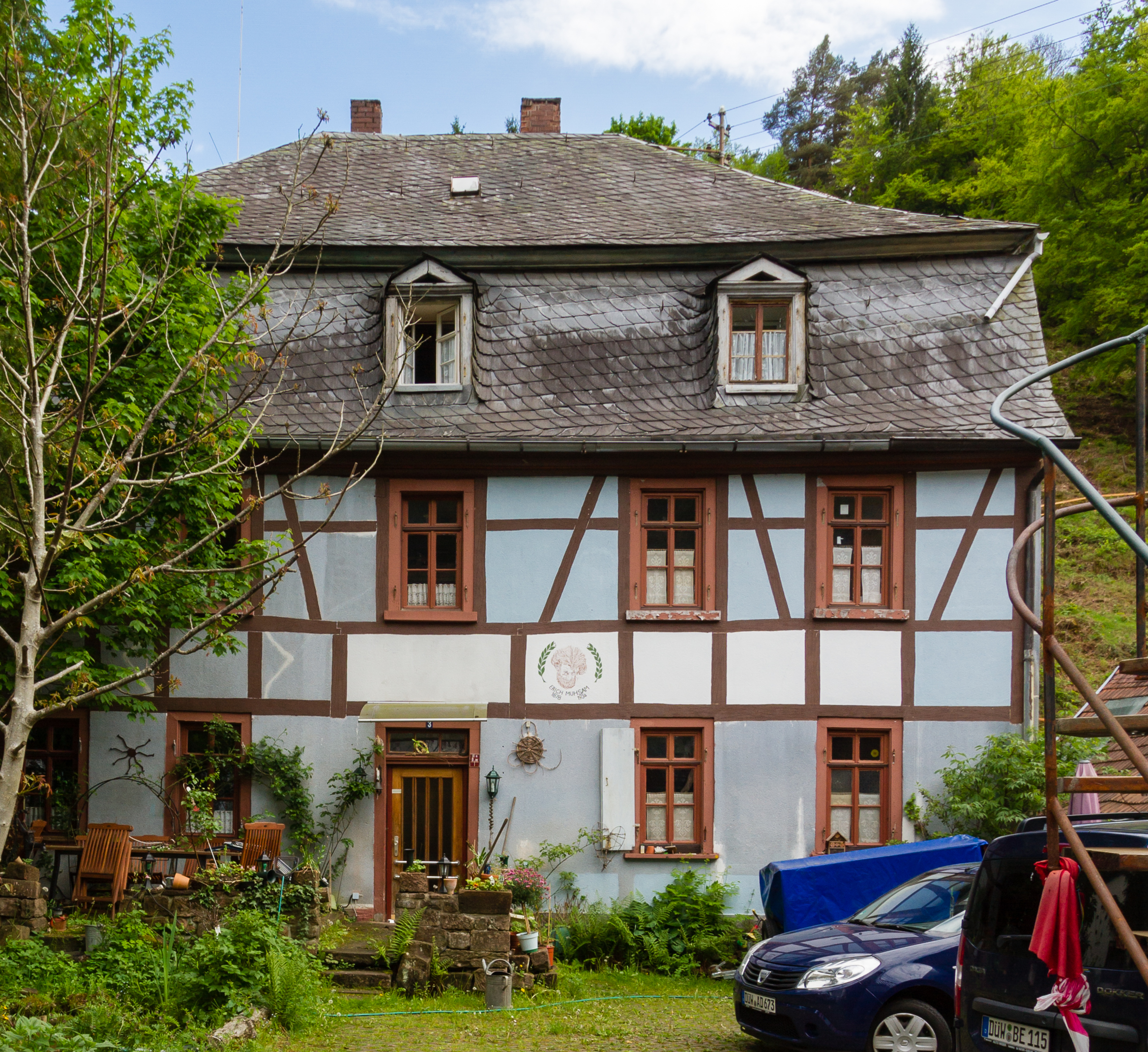 This is a photograph of an architectural monument.It is on the list of cultural monuments of Elmstein Designation: Electoral hunting lodge Construction time: middle of the 18th century Description: Former electoral hunting lodge. Two-sided farmyard, baroque half-timbered building (plastered) with hipped mansard roof. Baroque cellar building, designated 1754. Place: Municipality Elmstein, Collective municipality Lambrecht, District Bad Dürkheim, Rhineland-Palatinate, Germany Location: Alte Forststraße House number: 3